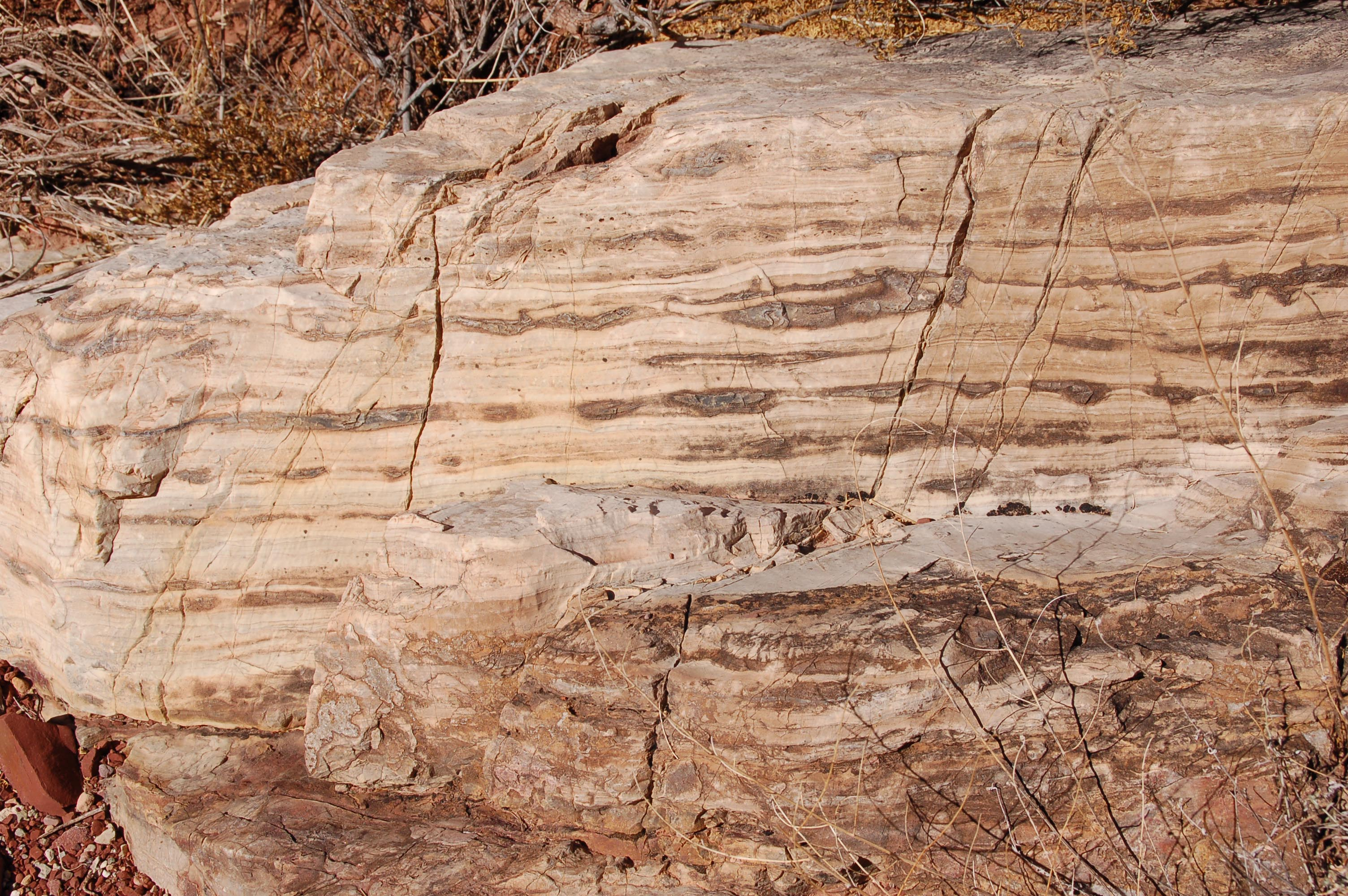 NPS Photo by: Carl Bowman Bass Limestone: Thickness: 260-300 feet A number of different sedimentary rock types (such as conglomerate, dolomite and shale) occur within this light grey to brown formation. The Bass Limestone contains fossilized stromatolites, which are among the oldest fossils in the world. Their presence allows scientists to infer that the Bass Limestone was deposited in a warm and shallow sea environment.